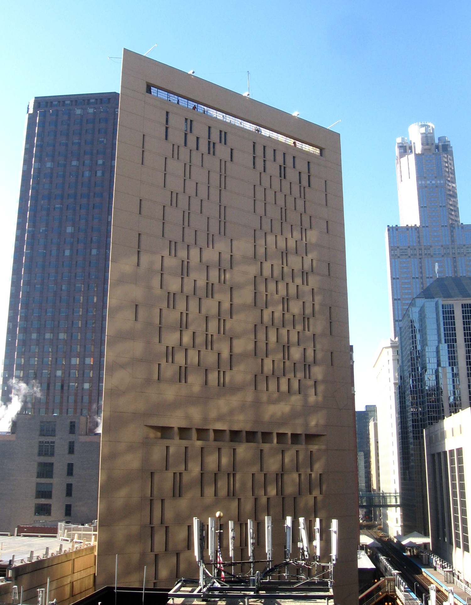 The Metropolitan Correctional Center in Chicago, Illinois. View from the east side.